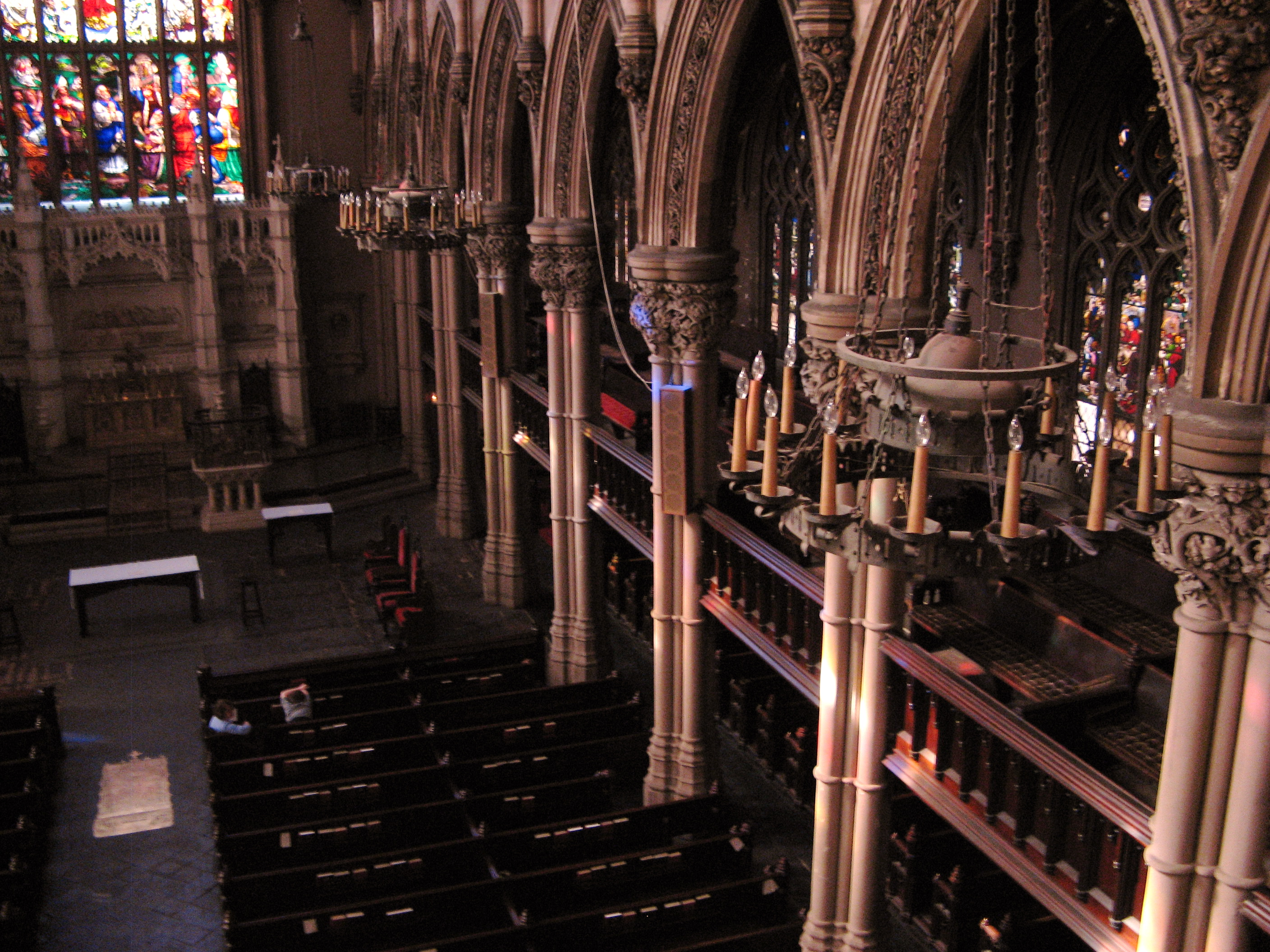 Holy Trinity church windows. Looking northwest in St. Ann and the Holy Trinity Church in Brooklyn, New York City.